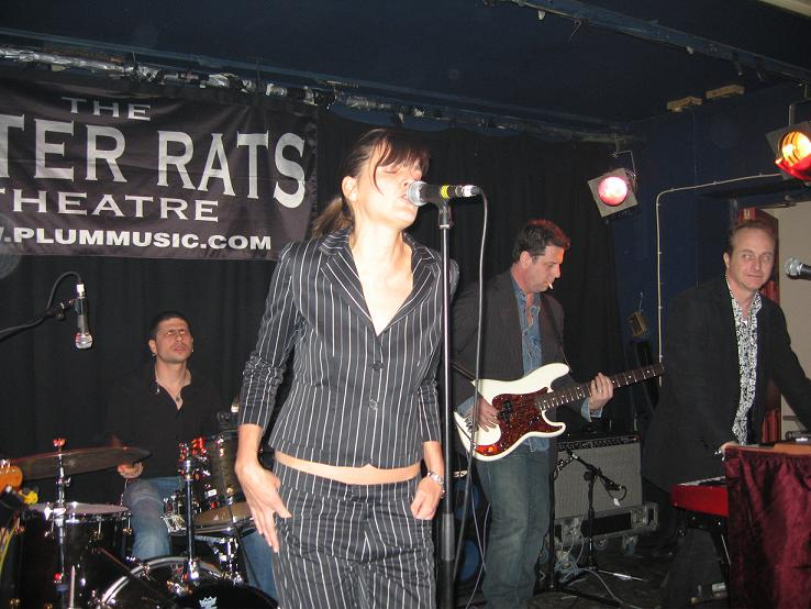 Shivaree at London concert